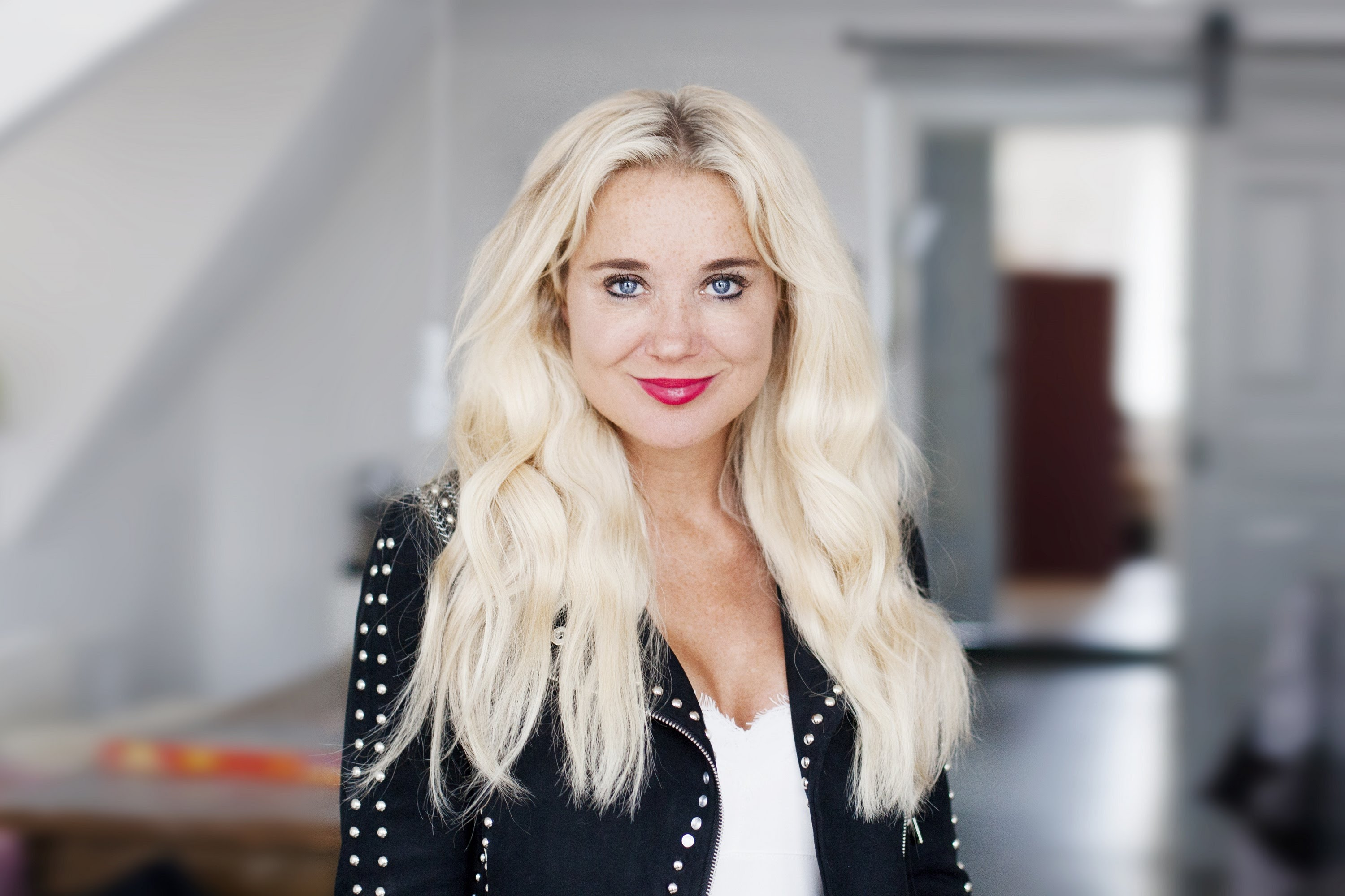 Sonja Bakker at her office in Amsterdam.